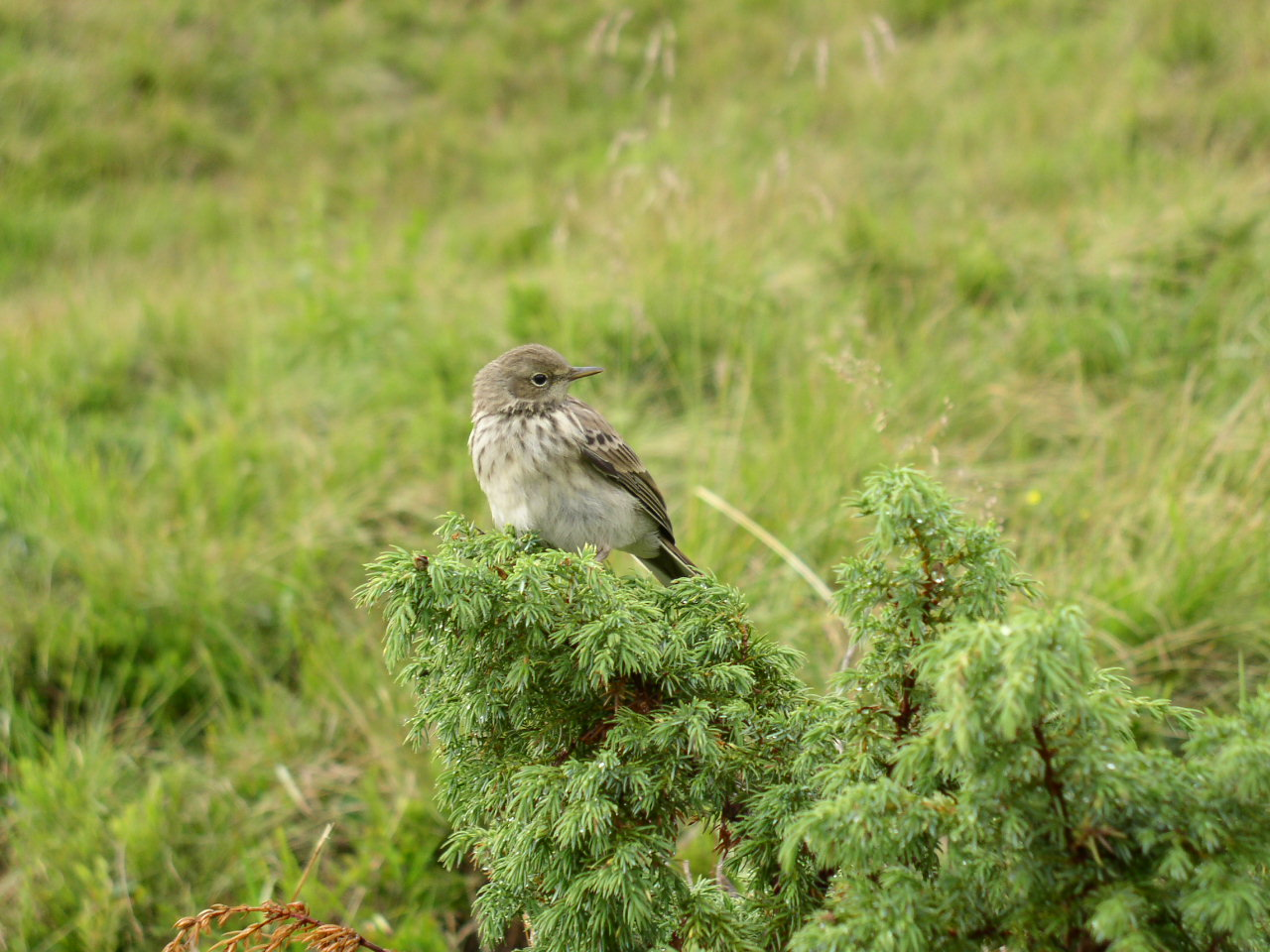 Water Pipit, perched on Alpine Juniper